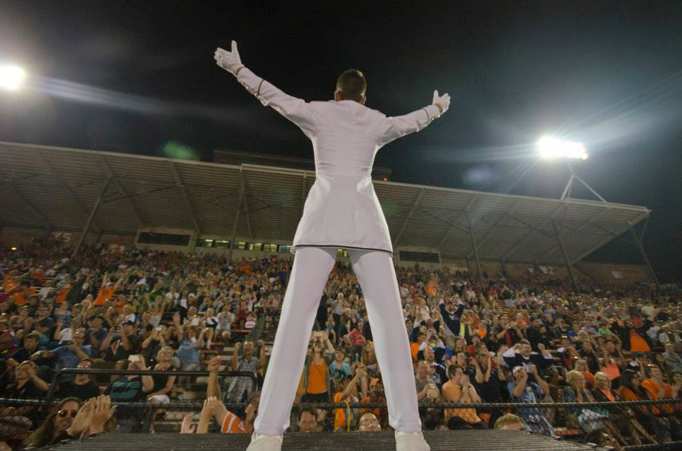 Drum major faces the crowd